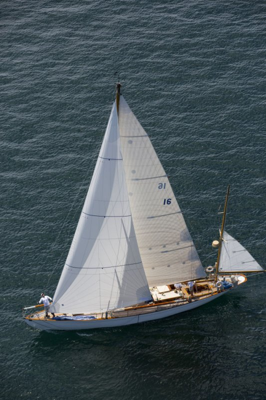 Picture of the S/Y Dorade under sail during the 2014 Bermuda Race